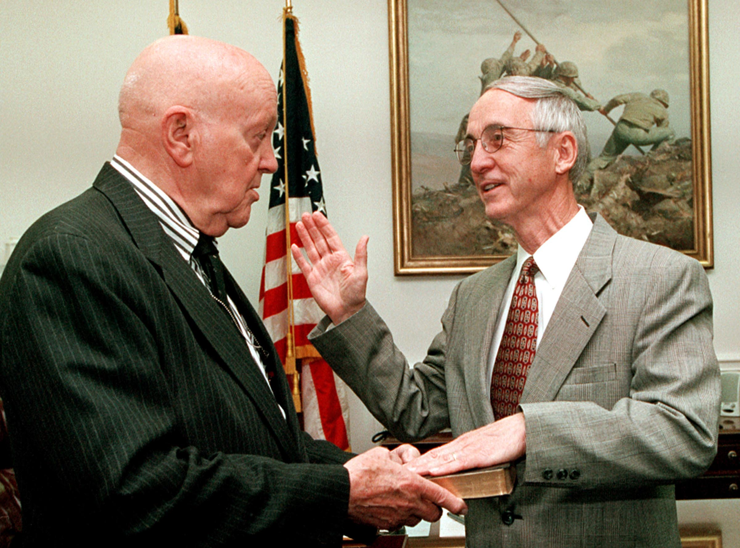 Gordon R. England (right) is administered the oath of office as the 72nd Secretary of the Navy by David O. Cooke in the Pentagon. England was nominated by President George W. Bush to be secretary of the navy on April 24, 2001, and was confirmed by the Senate on May 22, 2001. Cooke is the director of administration and management for Office of the Secretary of Defense.